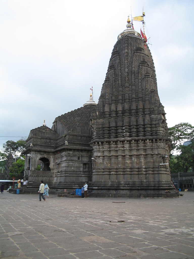 This is a temple is 28kms away from the Nashik City by road.